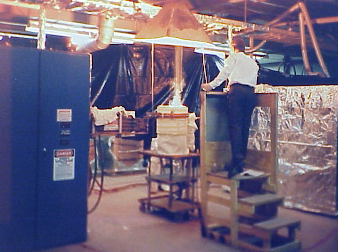 Larry P Kelley (president of ICT, INC.) monitoring a 1,000KW RF furnace and skull crucible containing 800 lbs of zirconium oxide and yttrium oxide being melted to form 'cubic' zirconia. Picture taken by his remote camera.